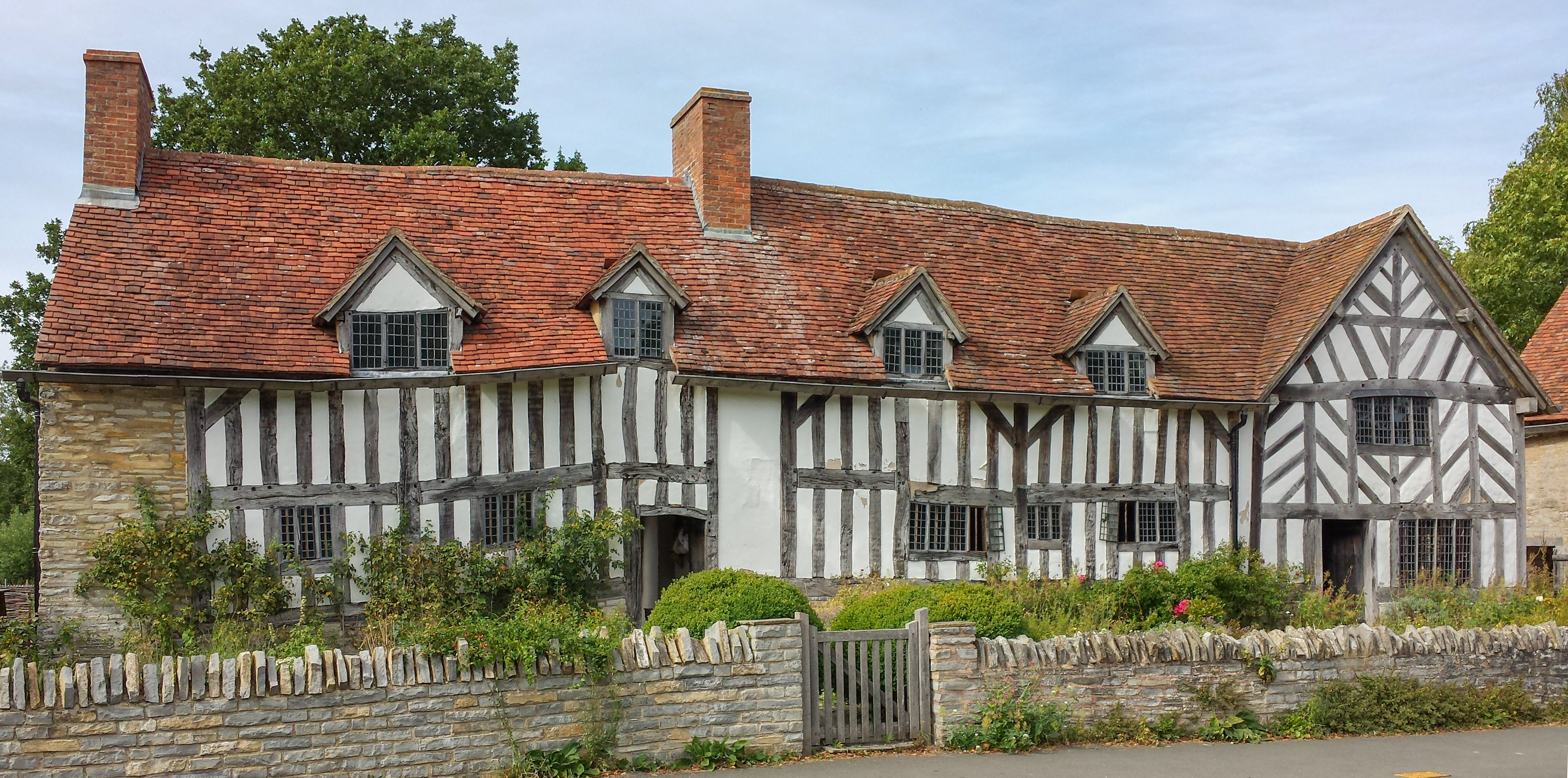 Palmer's Farmhouse, Wilmcote, Warwickshire. At one time thought to have been the home of William Shakespeare's mother, Mary Arden, this house neighbouring Mary Arden's Farm was known from 1794 to 2000 as 'Mary Arden's House'. This 16th century farmhouse is a Grade I listed building in England.